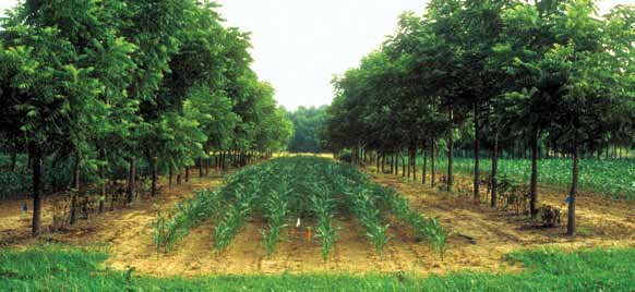 Alley cropping, corn between walnuts